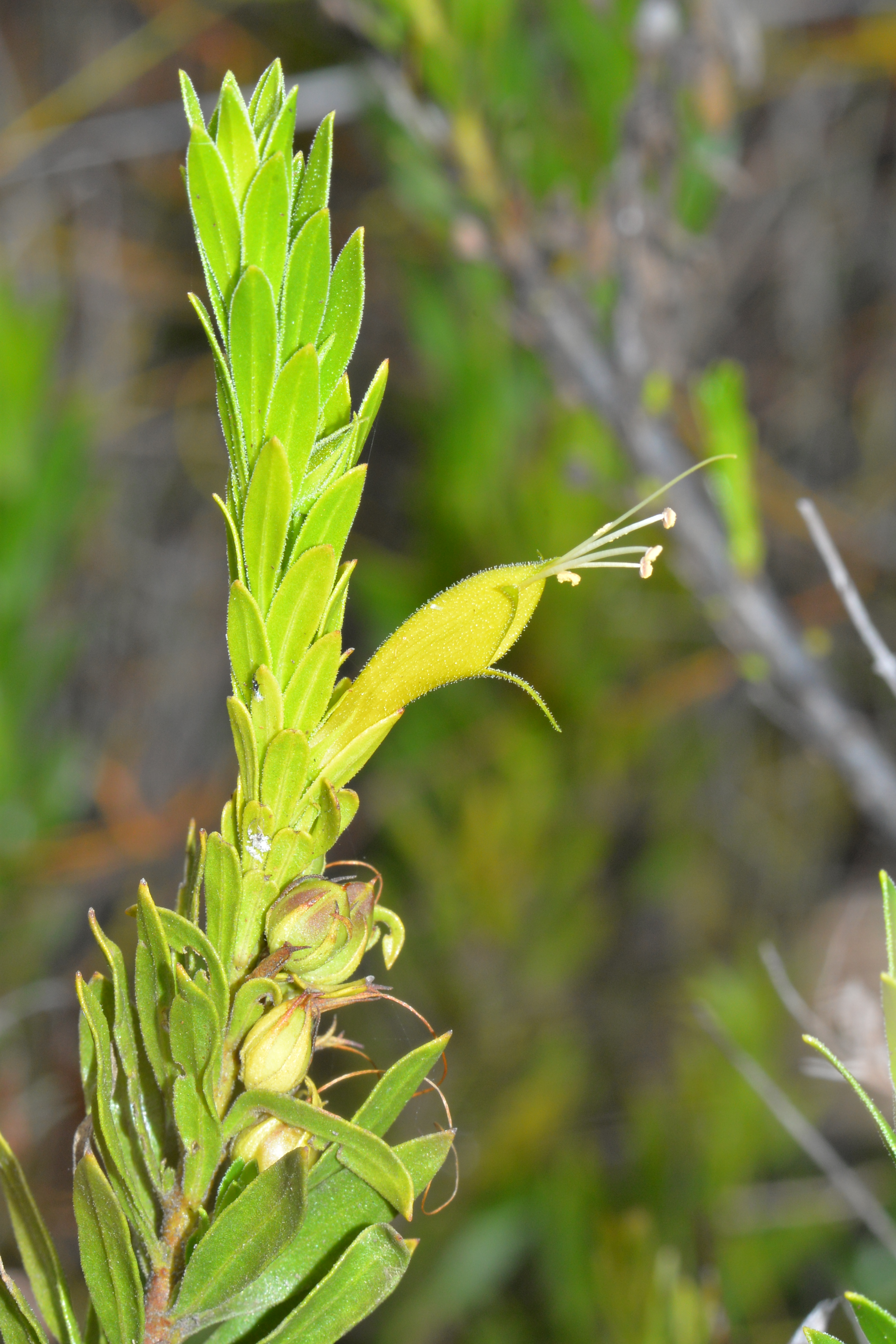 Eremophila glabra subsp. chlorella. Eremophila often have a common name of Tar bush due to the plant having a strong 'tar' smell. This one doesn't have the 'tar' smell. It is another Threatened plant from Western Australia